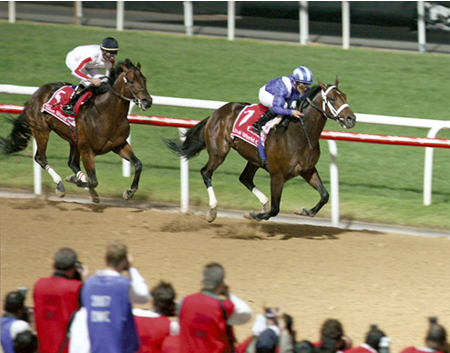 Invasor